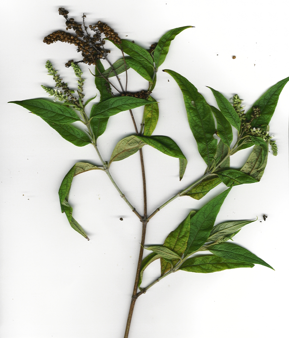 Buddleja asiatica (branch). Location: Maui, Huelo